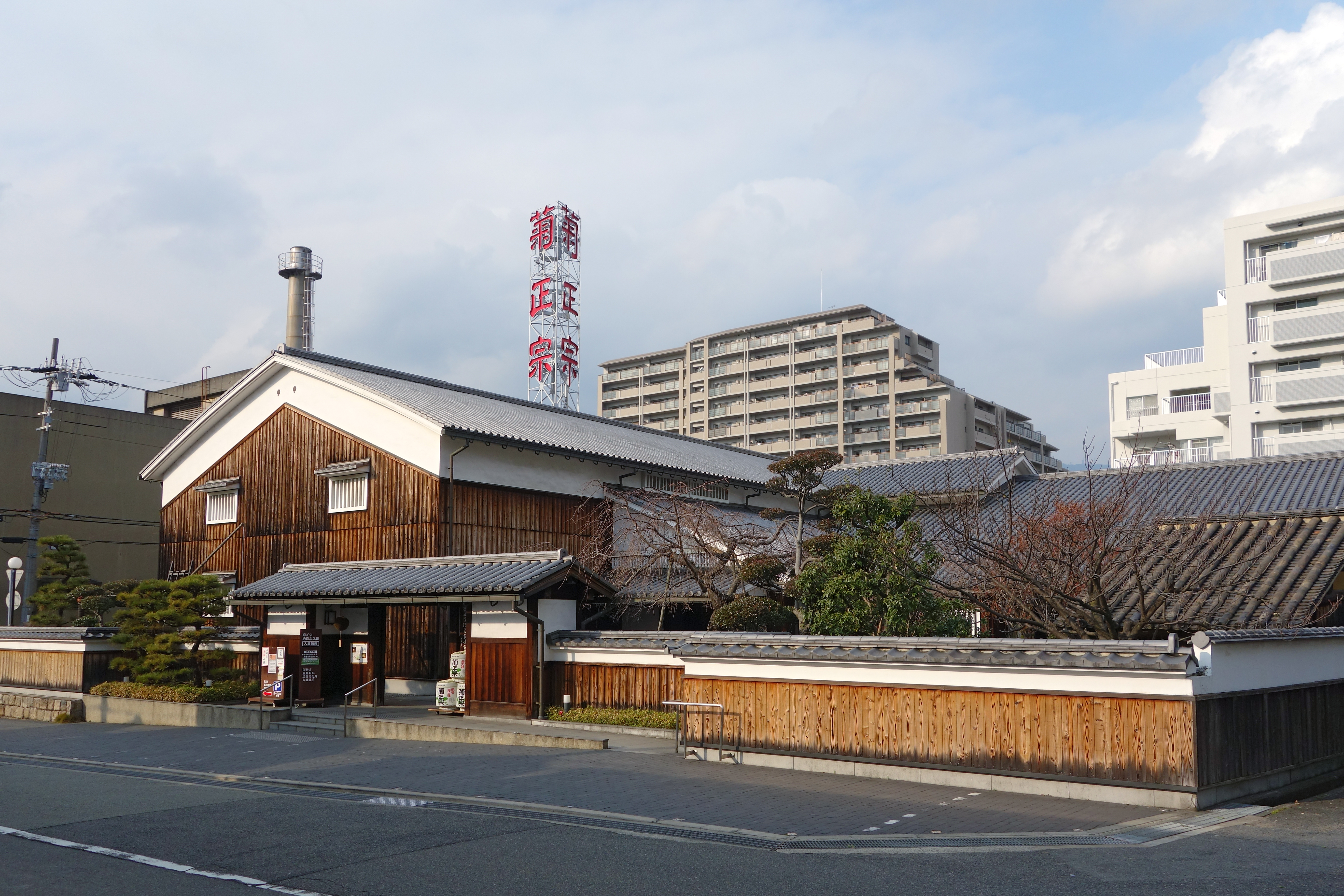 Kiku-Masamune Sake Brewery Museum in Kobe, Hyogo Prefecture, Japan